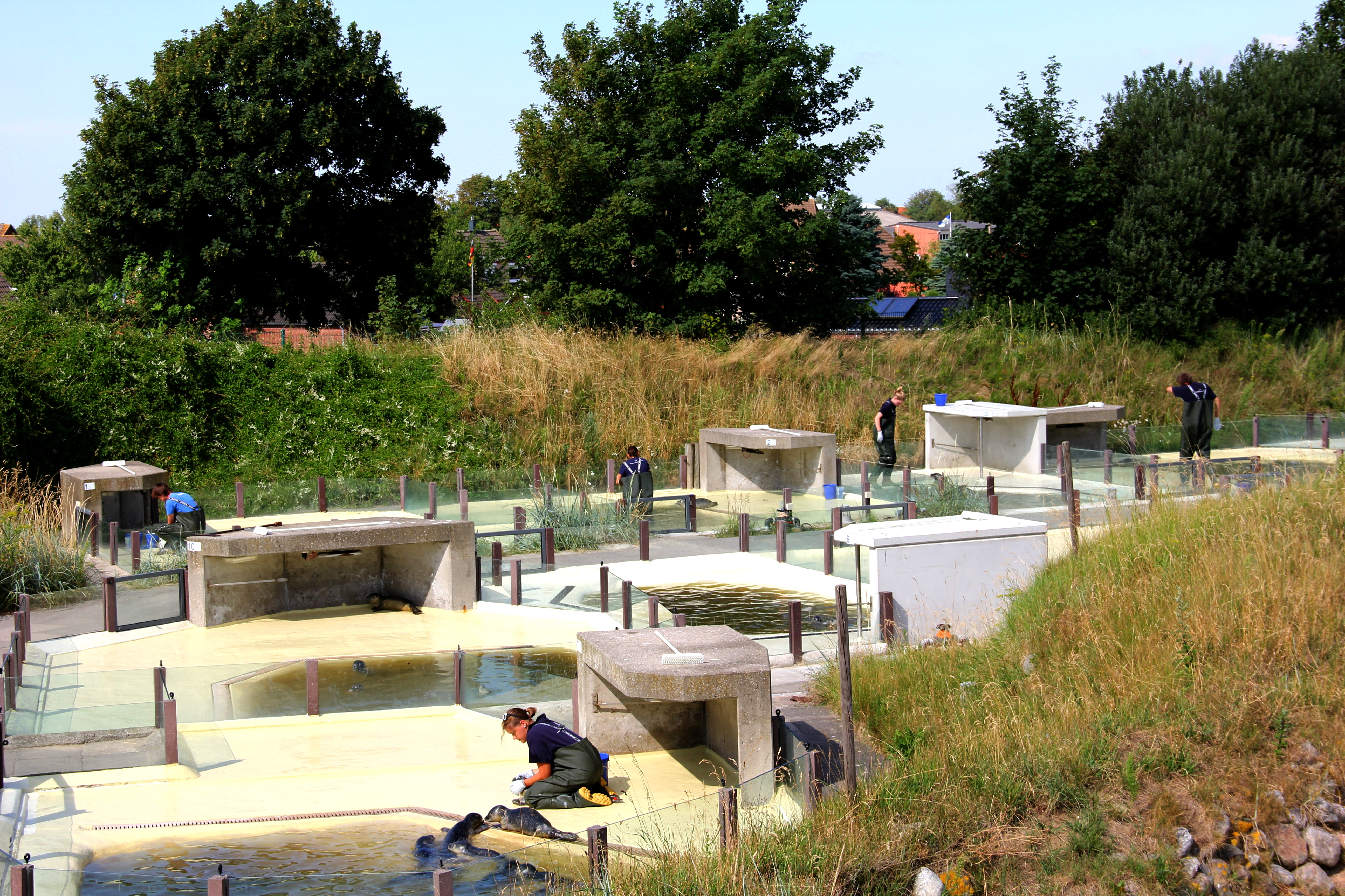 During Howler-feeding